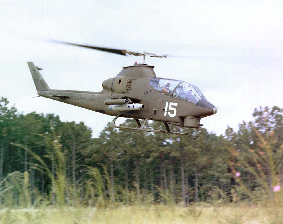 A U.S. Army Bell AH-1G HueyCobra in flight.